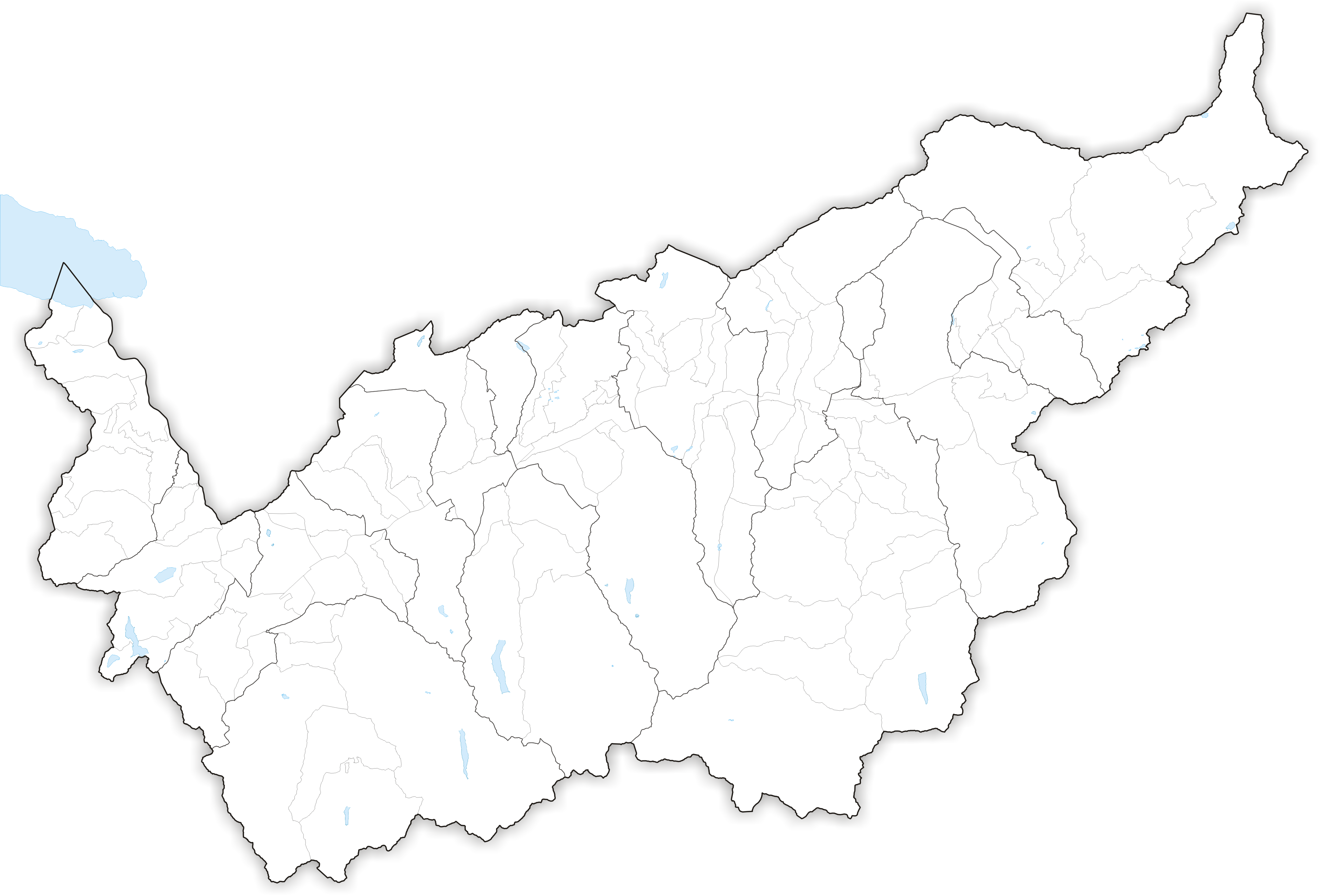 Municipalities in Canton Wallis